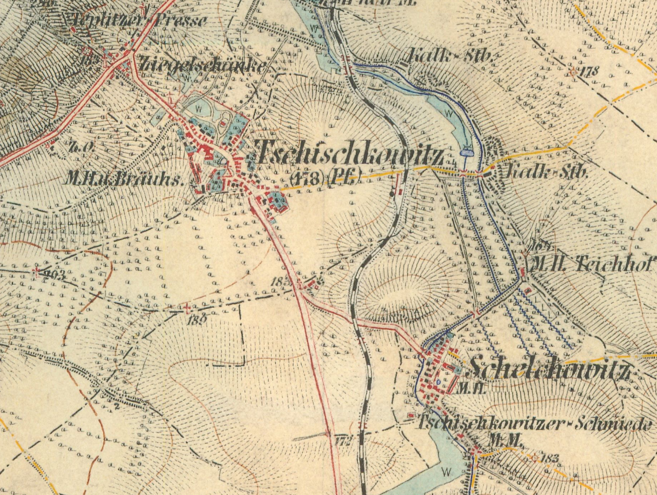 Čížkovice and Želechovice on a map of The Third Military Mapping Survey of Austrian Empire.